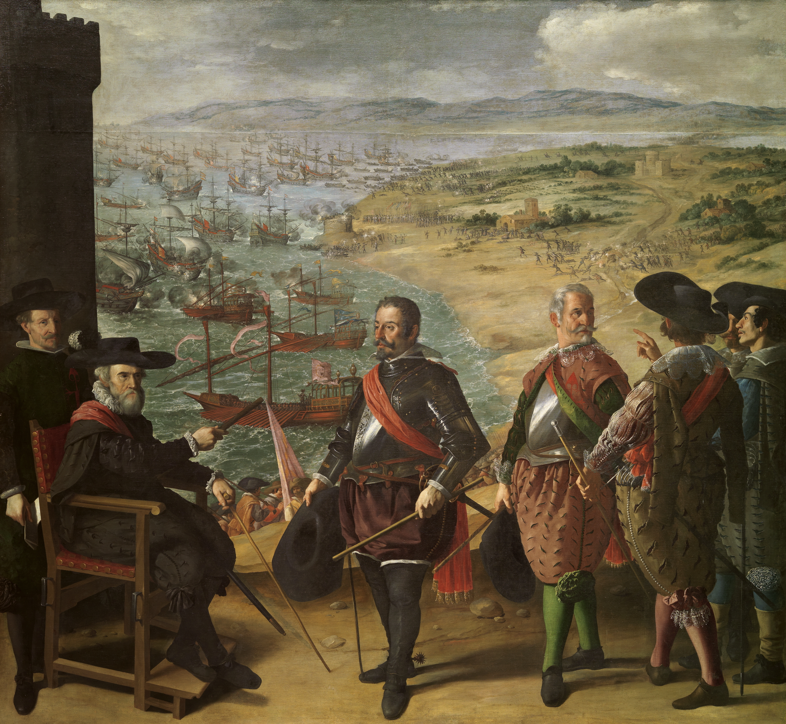 Don Fernando Girón y Ponce de León directs the defense of Cadiz against the attack of the English fleet under Sir Edward Cecil, later 1st Viscount Wimbledon, November 1, 1625.